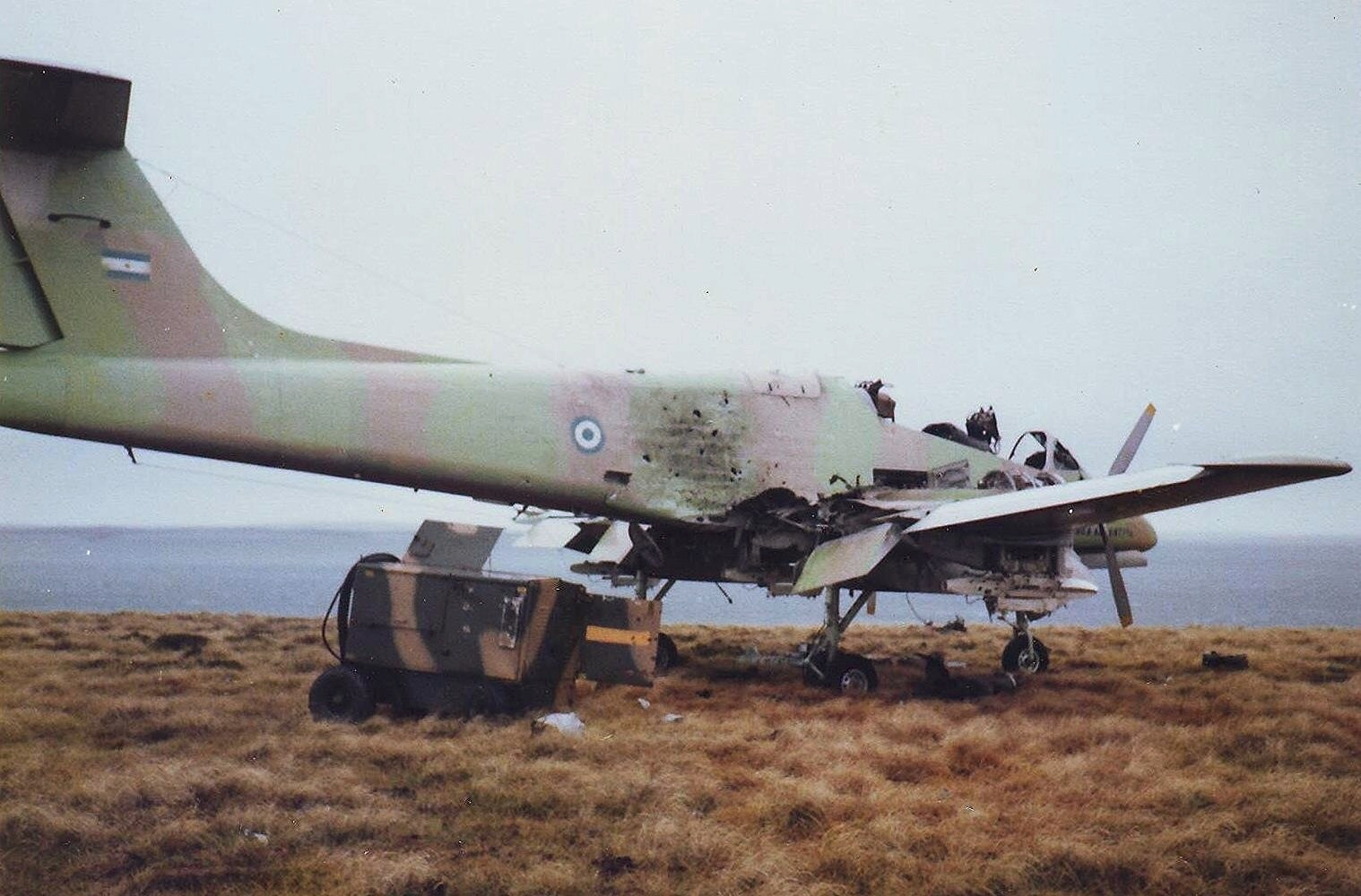 Taken after the war in 1982